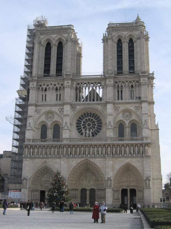 West Front of Notre-Dame de Paris.